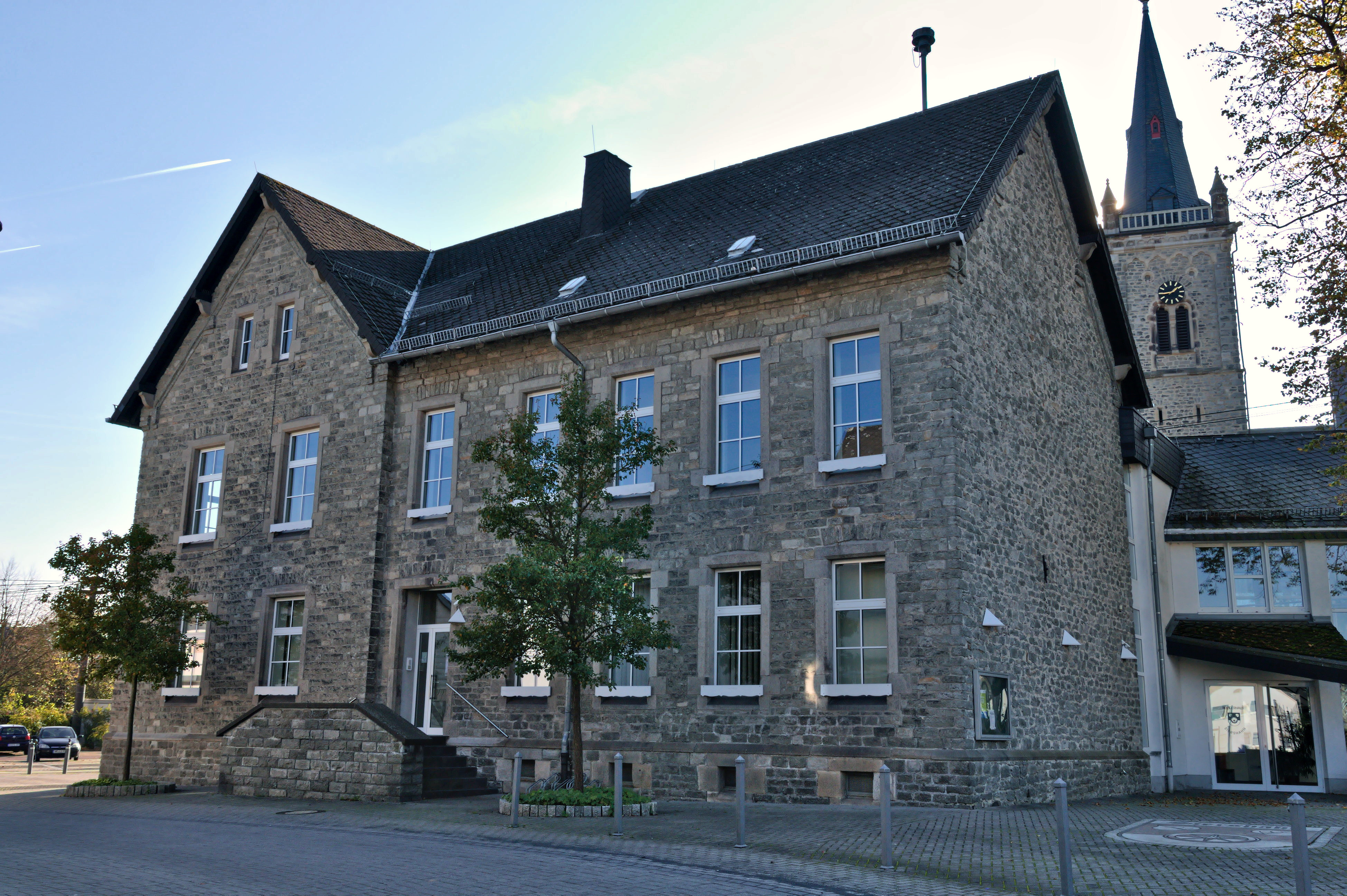 Village community centre. Location: Stetzelmannstraße/Burggrafstraße junction, Siershahn, Germany